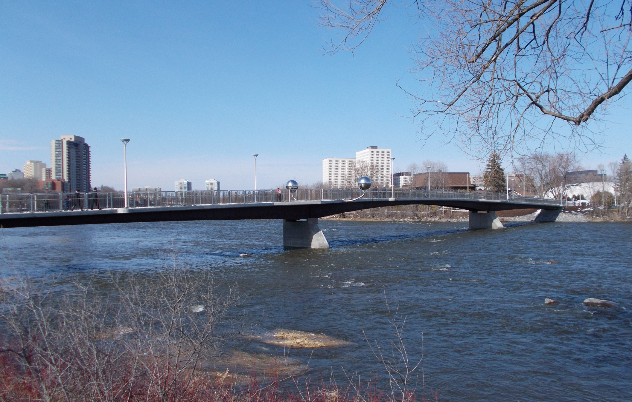 Adàwe Crossing, Ottawa, viewing looking north (downriver) March 2016